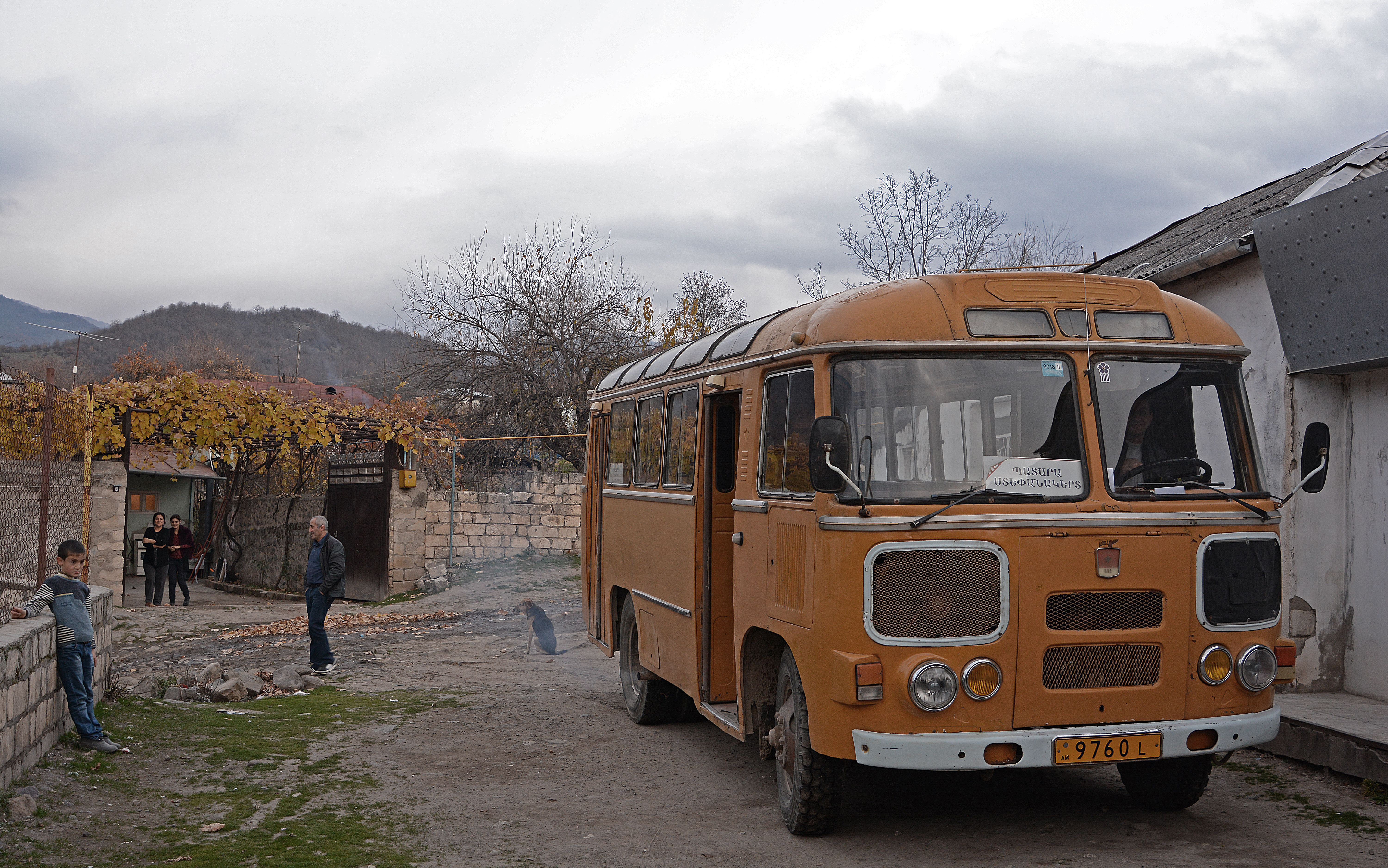 Patara bus